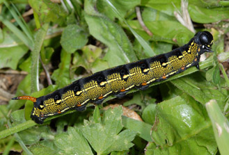 caterpillar of the Striped Hawk-moth